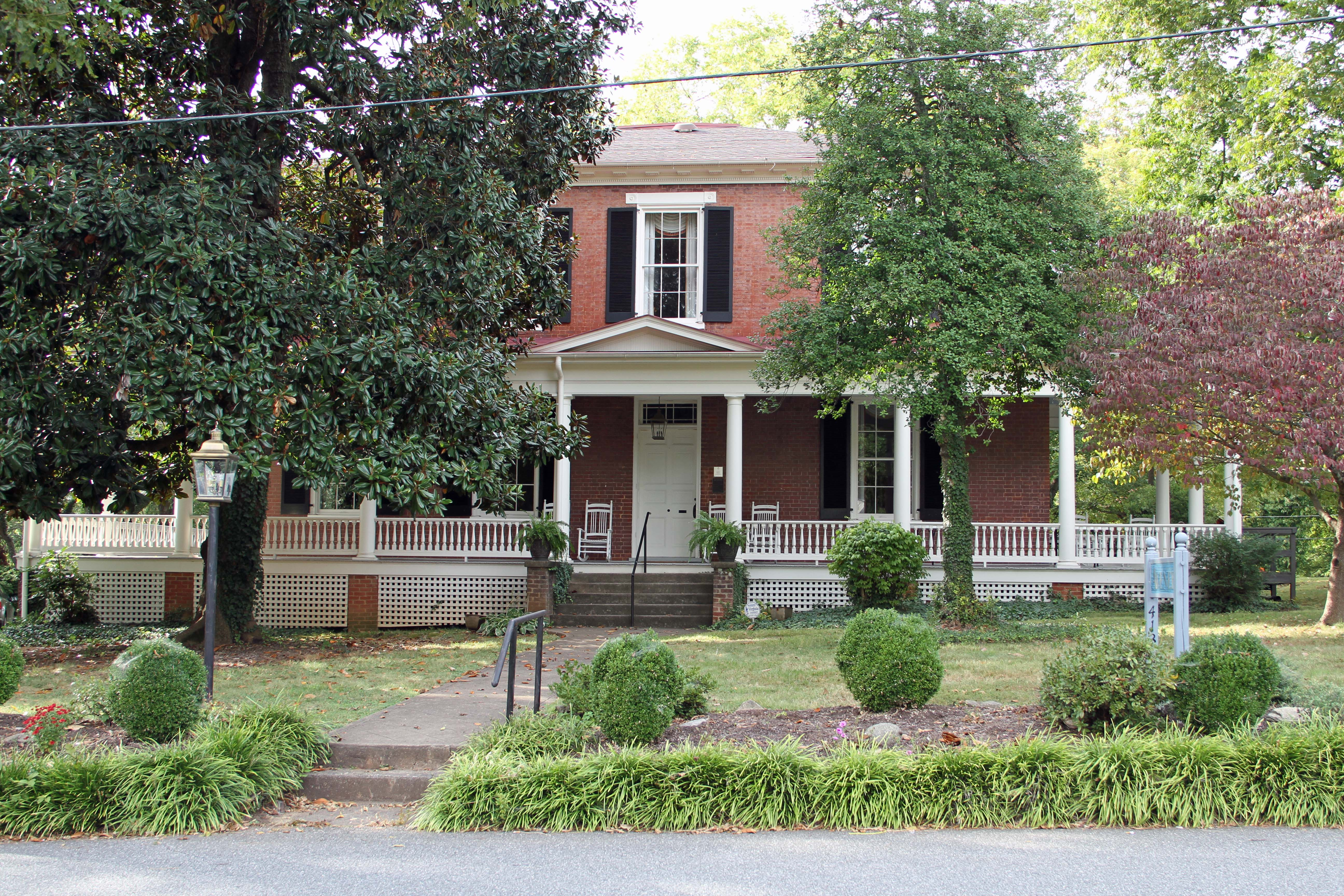 Avenel